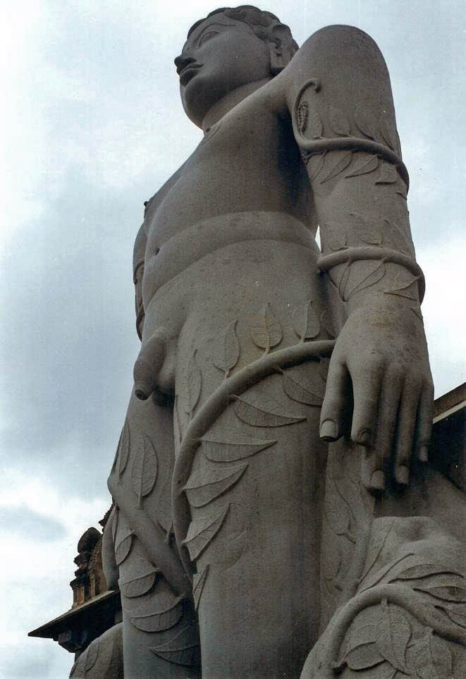 Photo taken by me. Gomateshwara side view at Shravanabelagola.